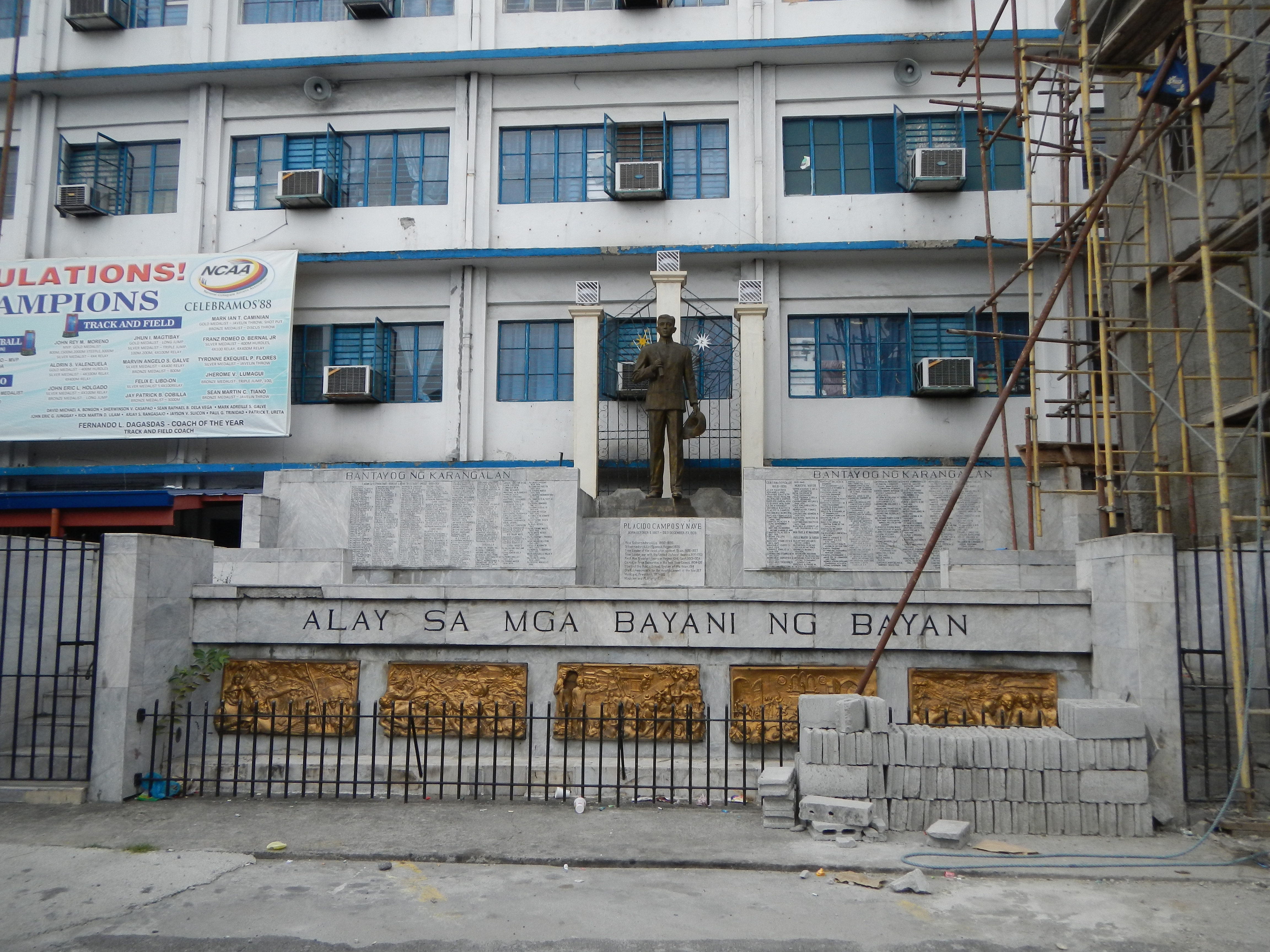 Immaculate Conception Academy[1]Immaculate Conception Academy, Dasmariñas (ICA Dasmariñas) is a private, non-sectarian educational institution in Dasmariñas, Cavite, the Philippines. It is owned and managed by the board of directors.